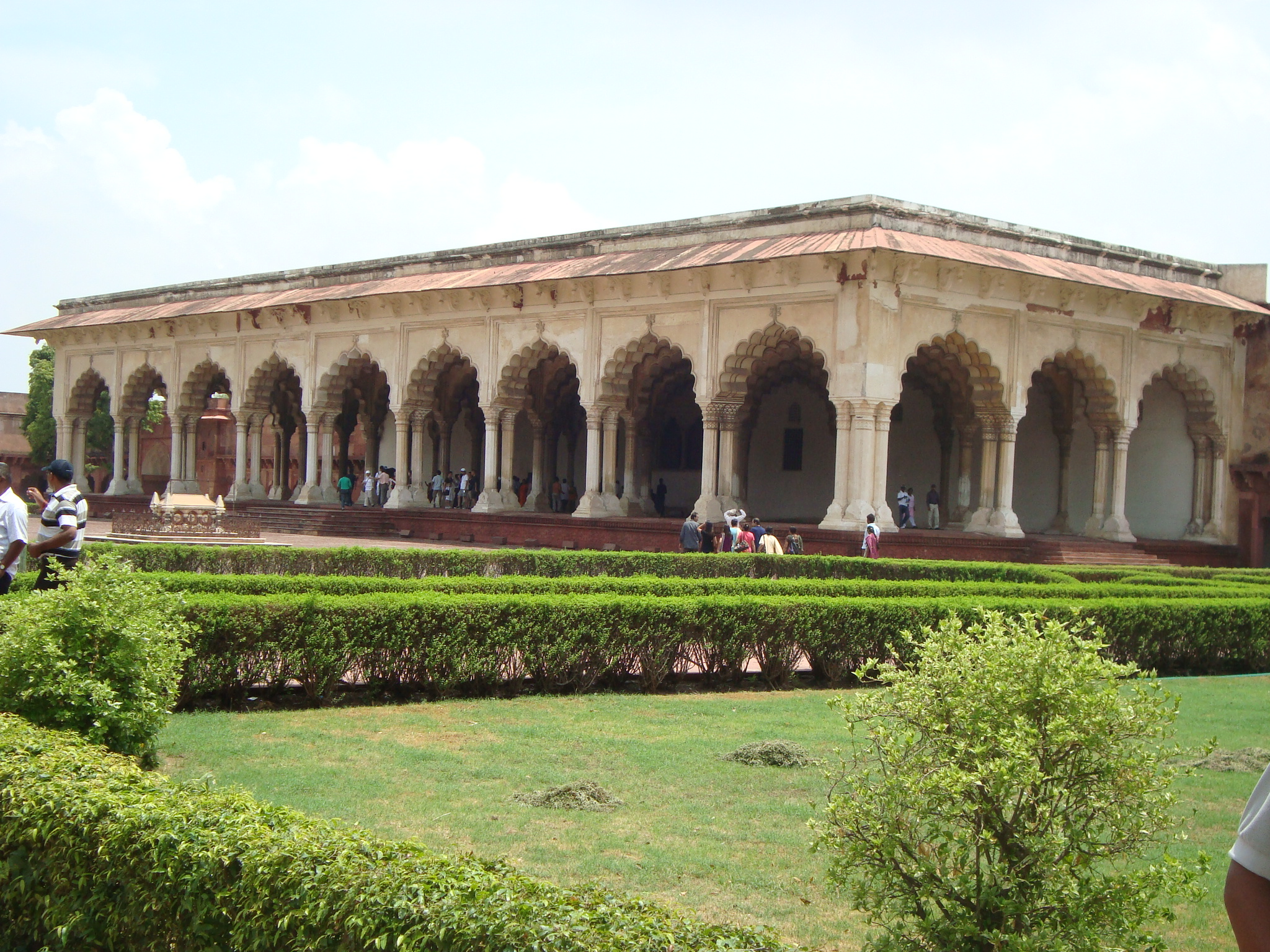 Diwan-e Aam (Hall of Public Audience) of Agra Fort